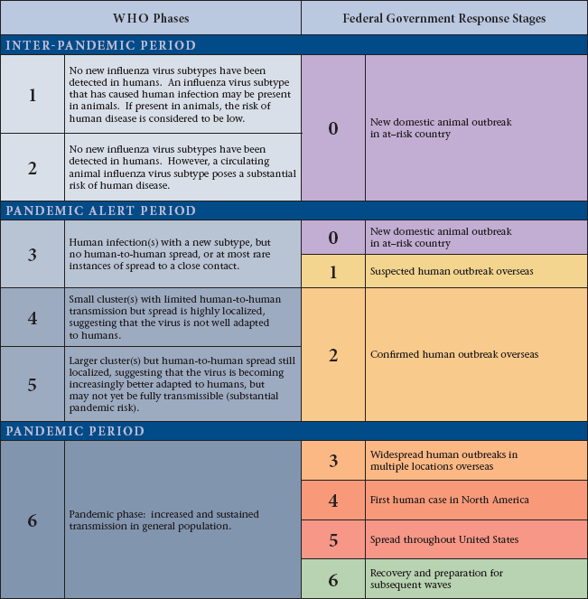 A table mapping the World Health Organization (WHO) influenza pandemic phases to the U.S. federal response stages.